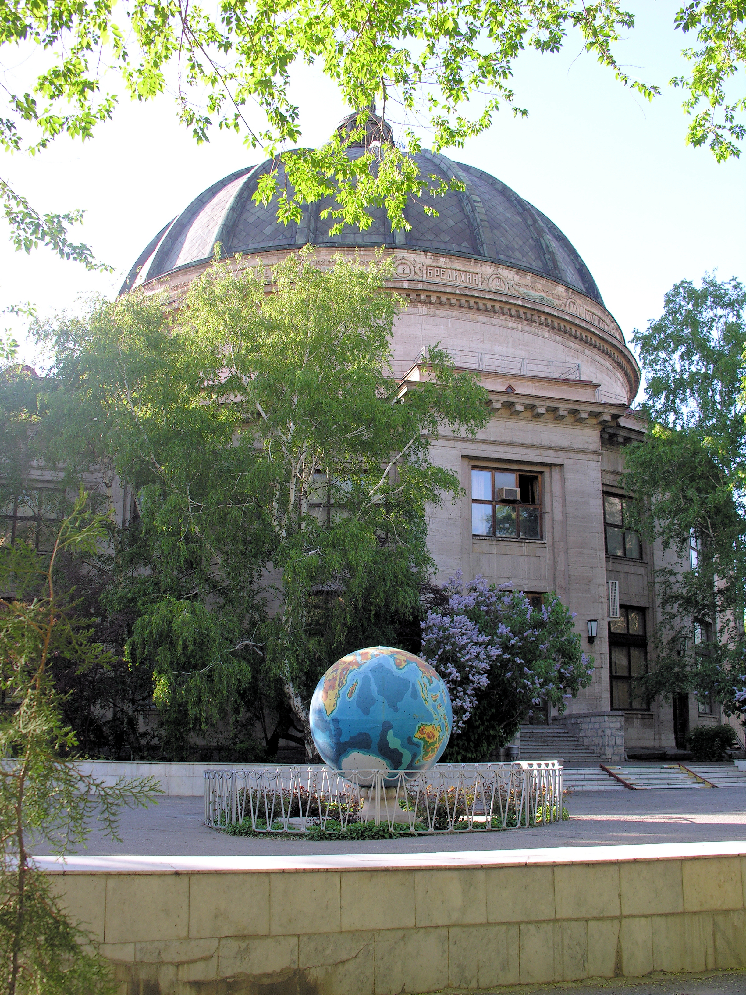 Globus in Volgograd Planetarium